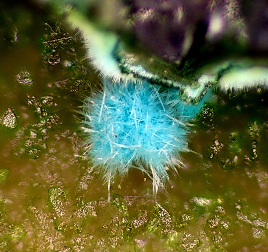 Quetzalcoatlite Locality: Bambollita Mine (Oriental Mine), Moctezuma, Mun. de Moctezuma, Sonora, Mexico Blue quetzalcoatlite on quartz. Picture width 2 mm. Collection and photograph Christian Rewitzer